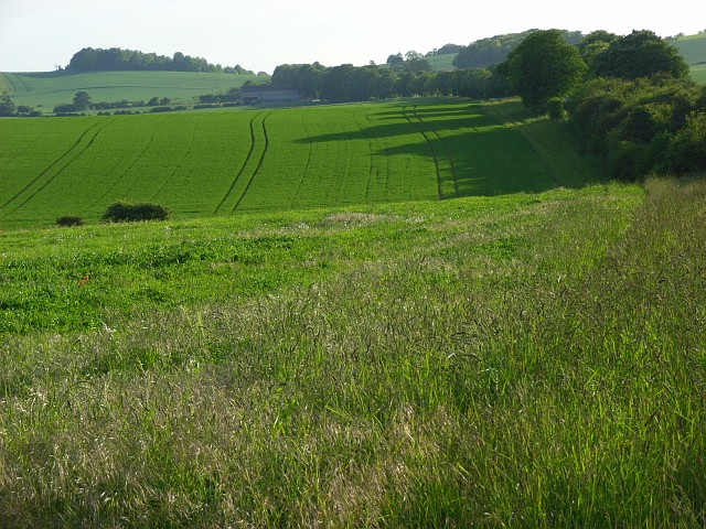 Farmland, Snoddington Down Looking alongside the line of Snoddington Road which is in an avenue of horse chestnuts. Snoddington Hill is in the distance.